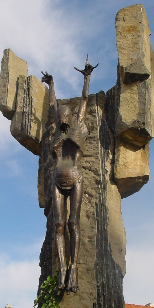 The sculpture of Nandor Wagner symbolizing the fate of Hungary